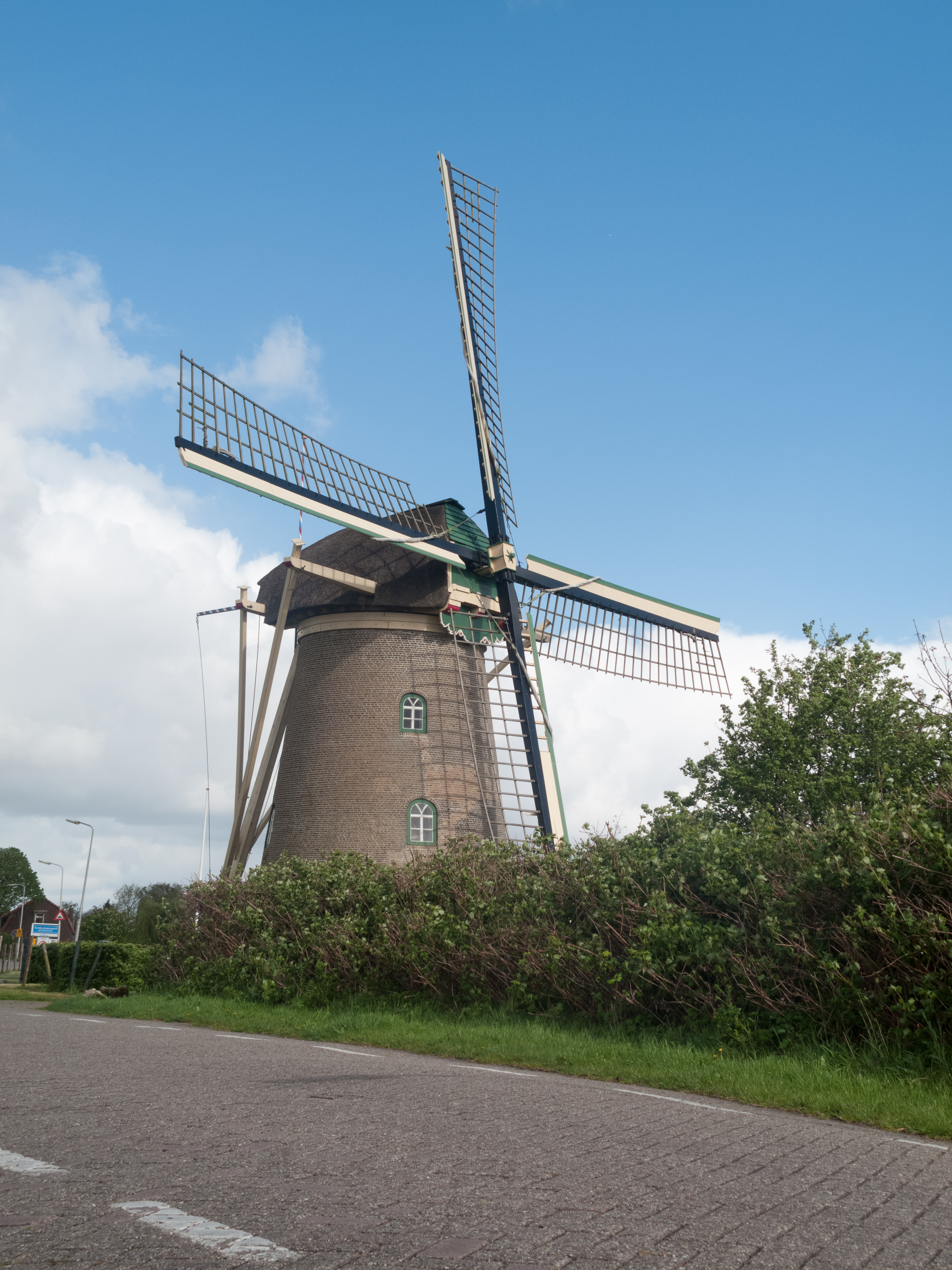 Goidschalxoord, windmill: de molen van Goidschalxoord